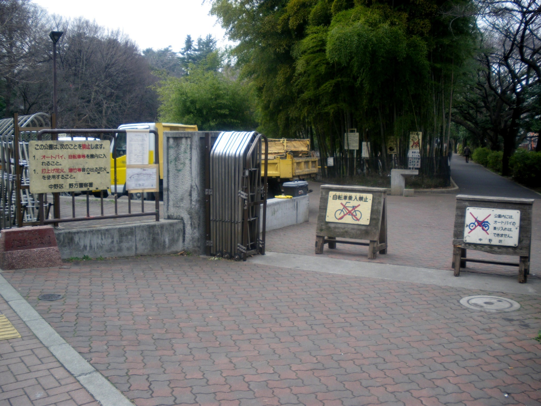 A photo of Egota no mori park(former Kitaegota park area),Egota,nakano-ku,Tokyo,Japan.